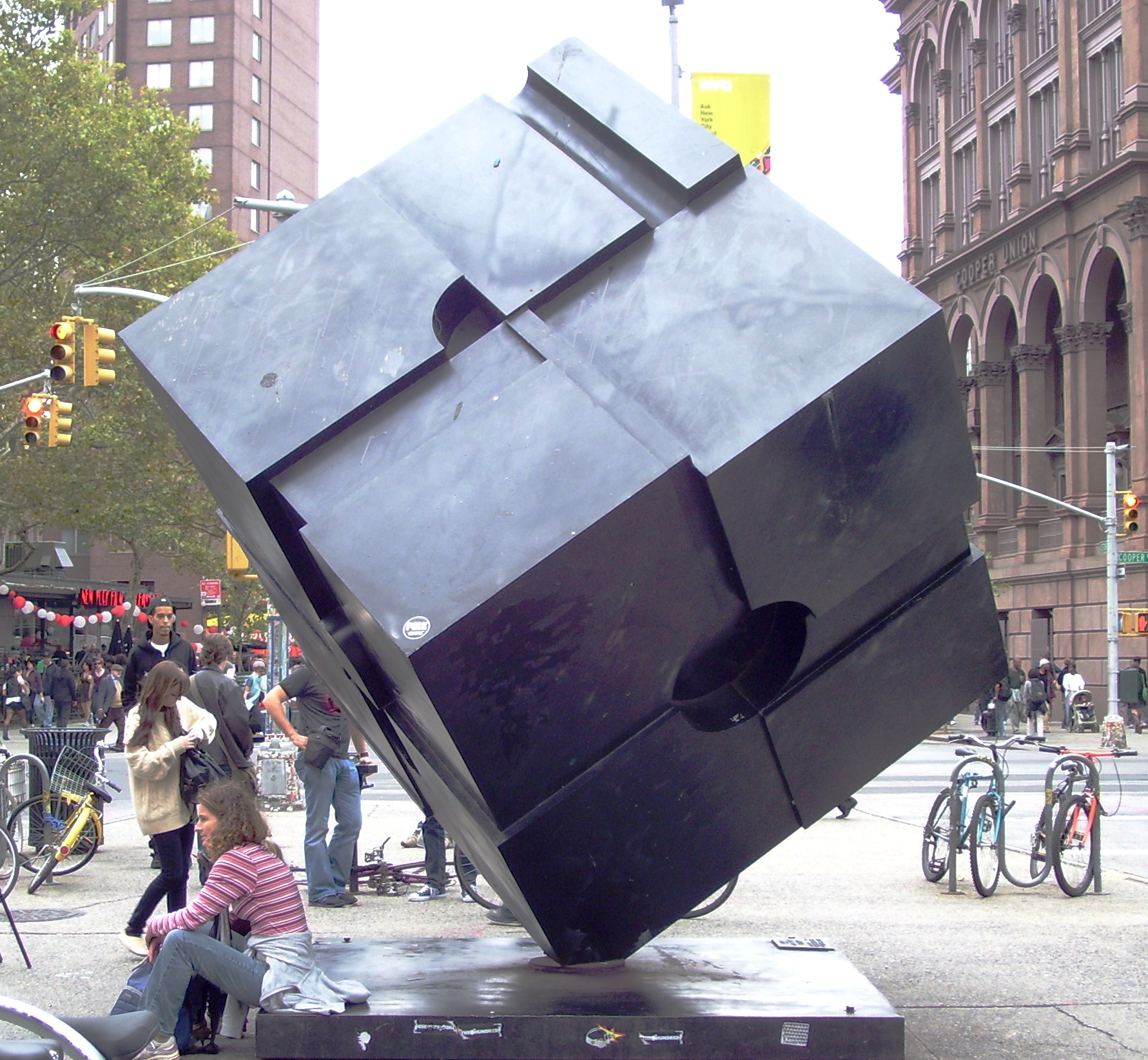 Normal mid-afternoon weekday activity around Tony Rosenthal's sculpture Alamo, better known as the "Astor Place Cube", in the middle of Astor Place.